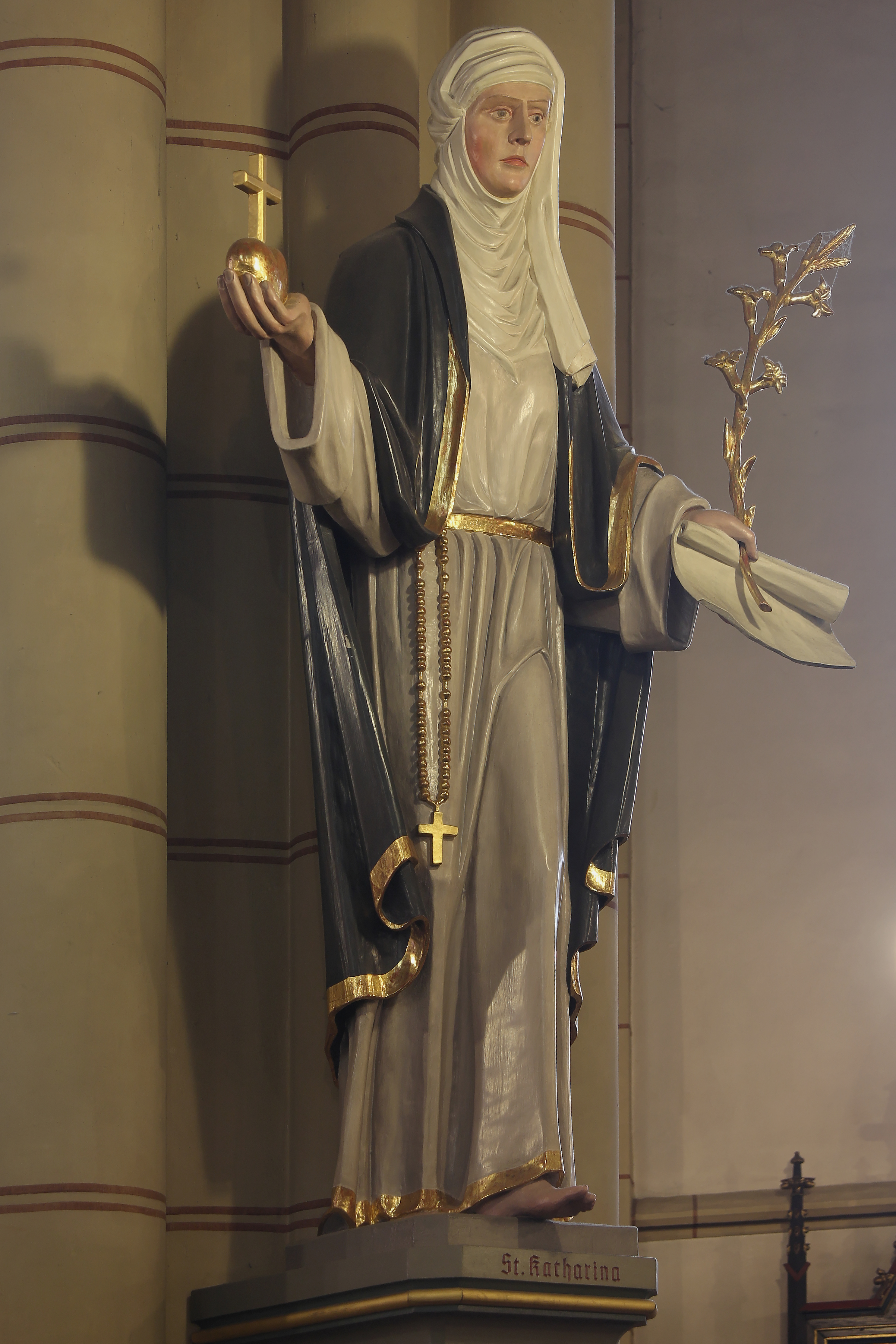 Interior of St. Sophien in Hamburg-Barmbek